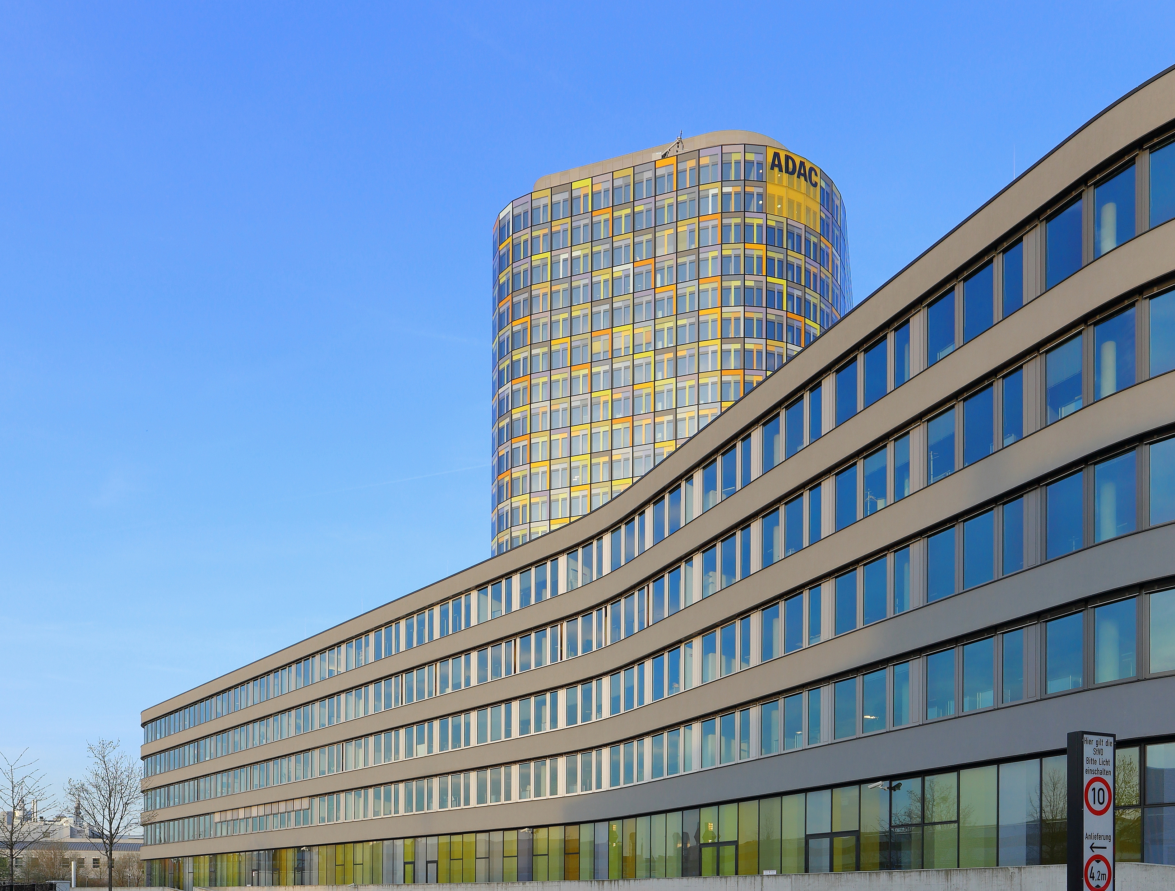 The main office complex of the ADAC in Munich was designed by Sauerbruch Hutton and opened in 2012.